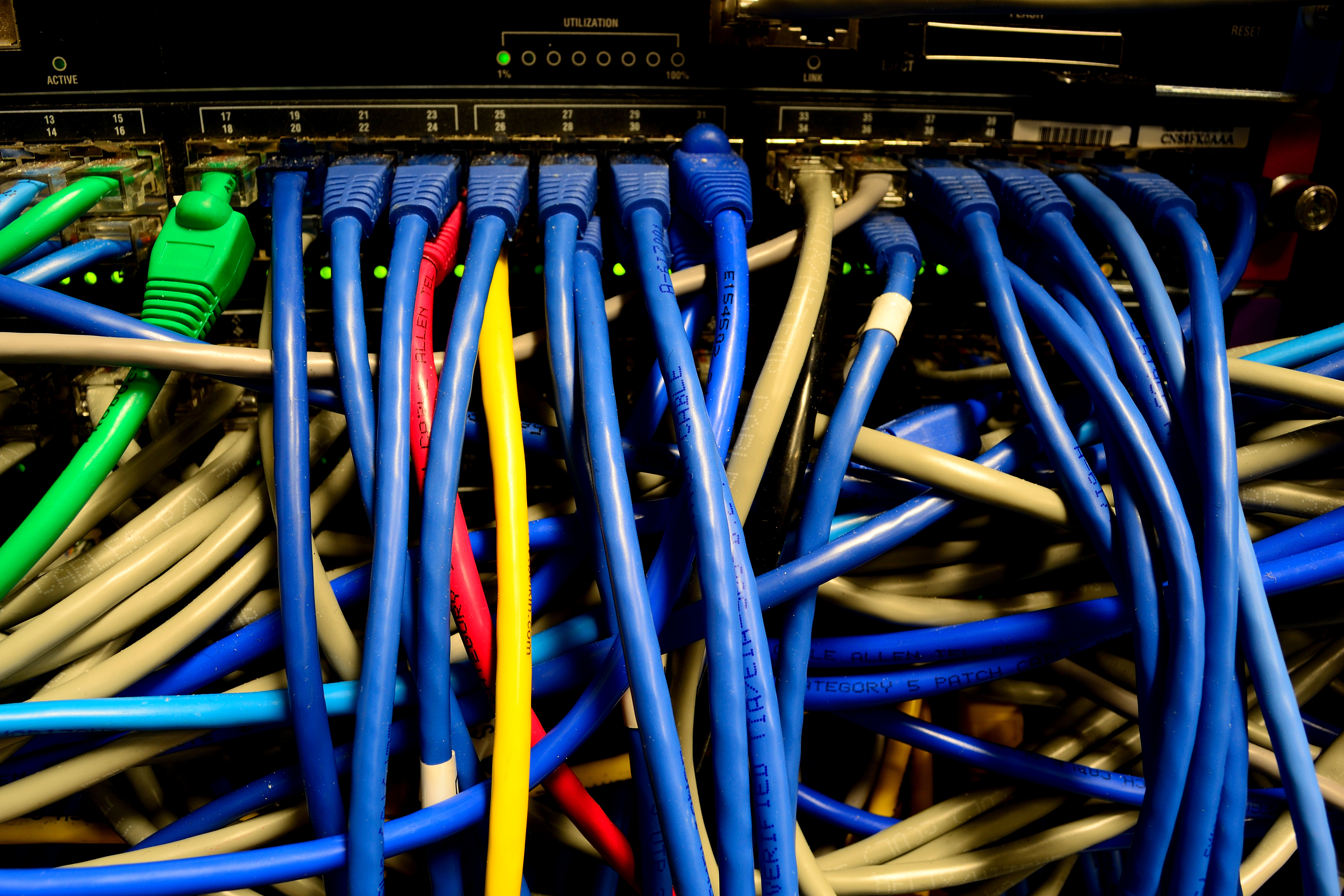 Ethernet switch & colorful ethernet cables.